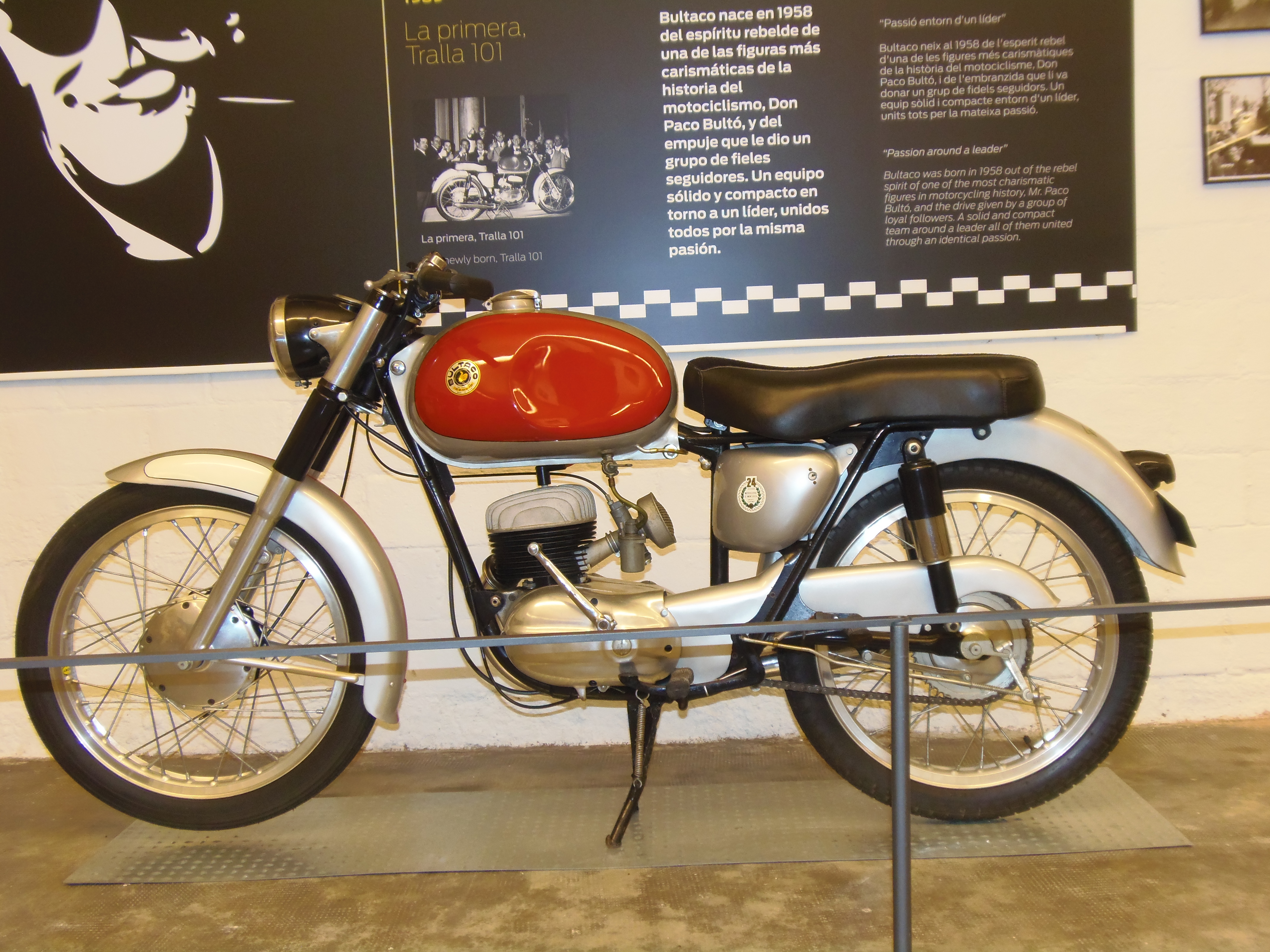 Down: Bultaco Tralla 101 125cc, 1959. First model manufactured by Bultaco, filed on March 24, 1959.